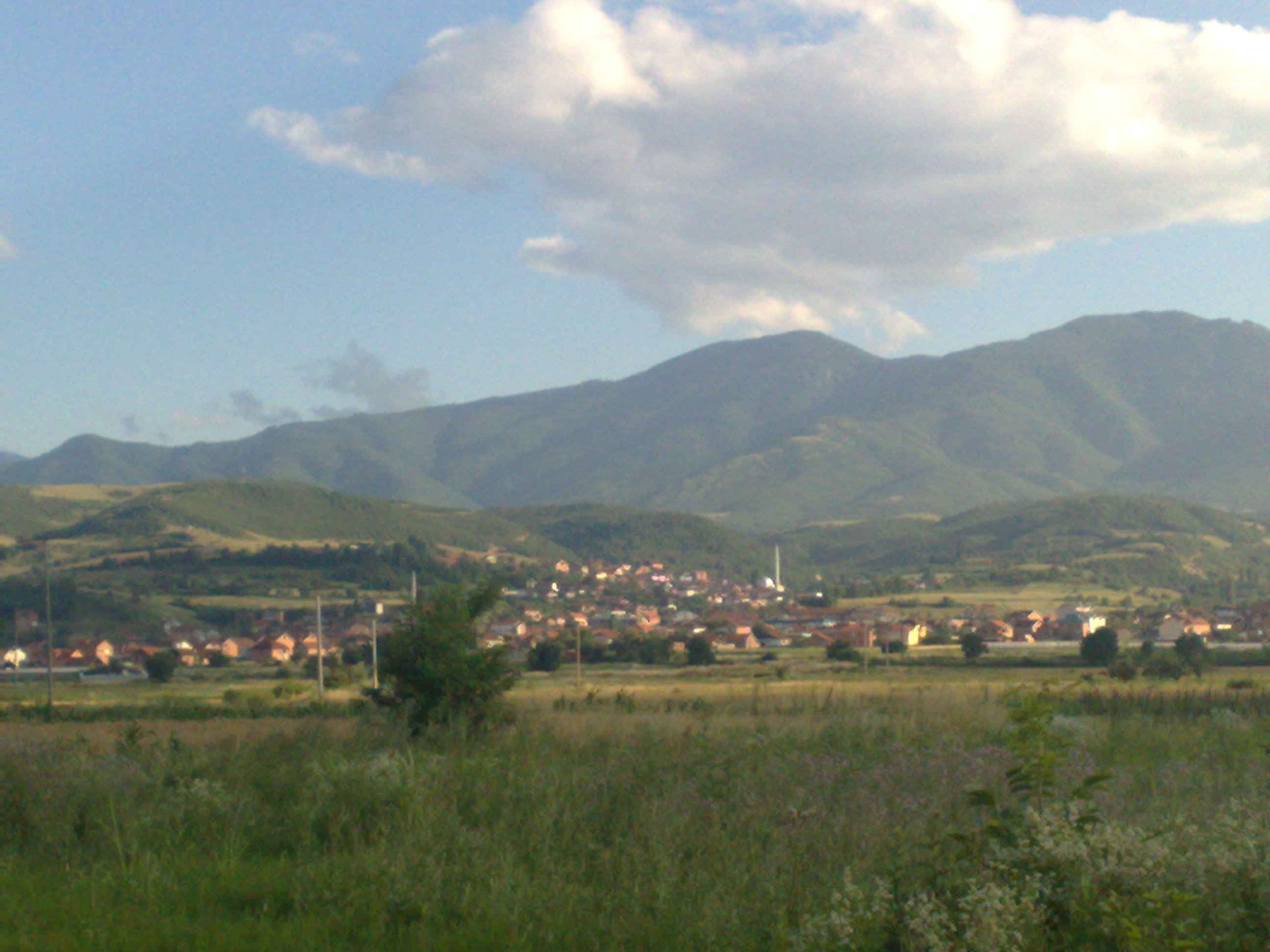 village of Studenichani, Macedonia